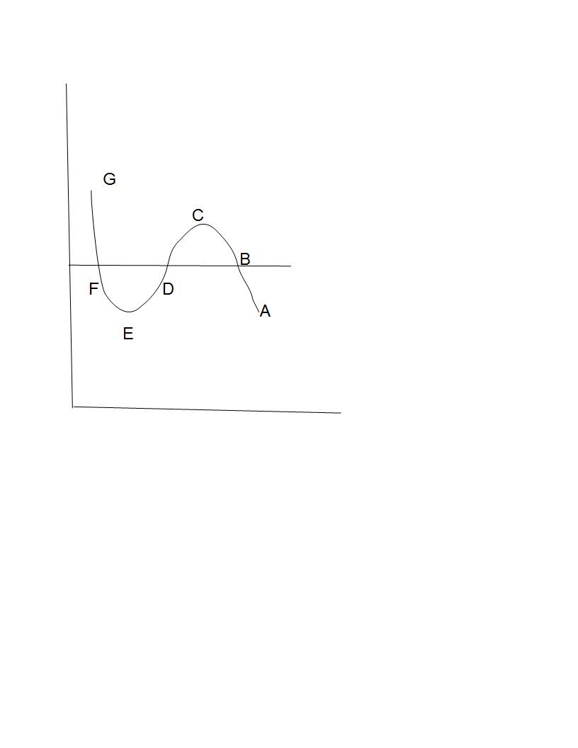 This is rendition of a figure in the James Clerk-Maxwell paper in Nature explaining what we now call the Maxwell construction for the van der Waals gas